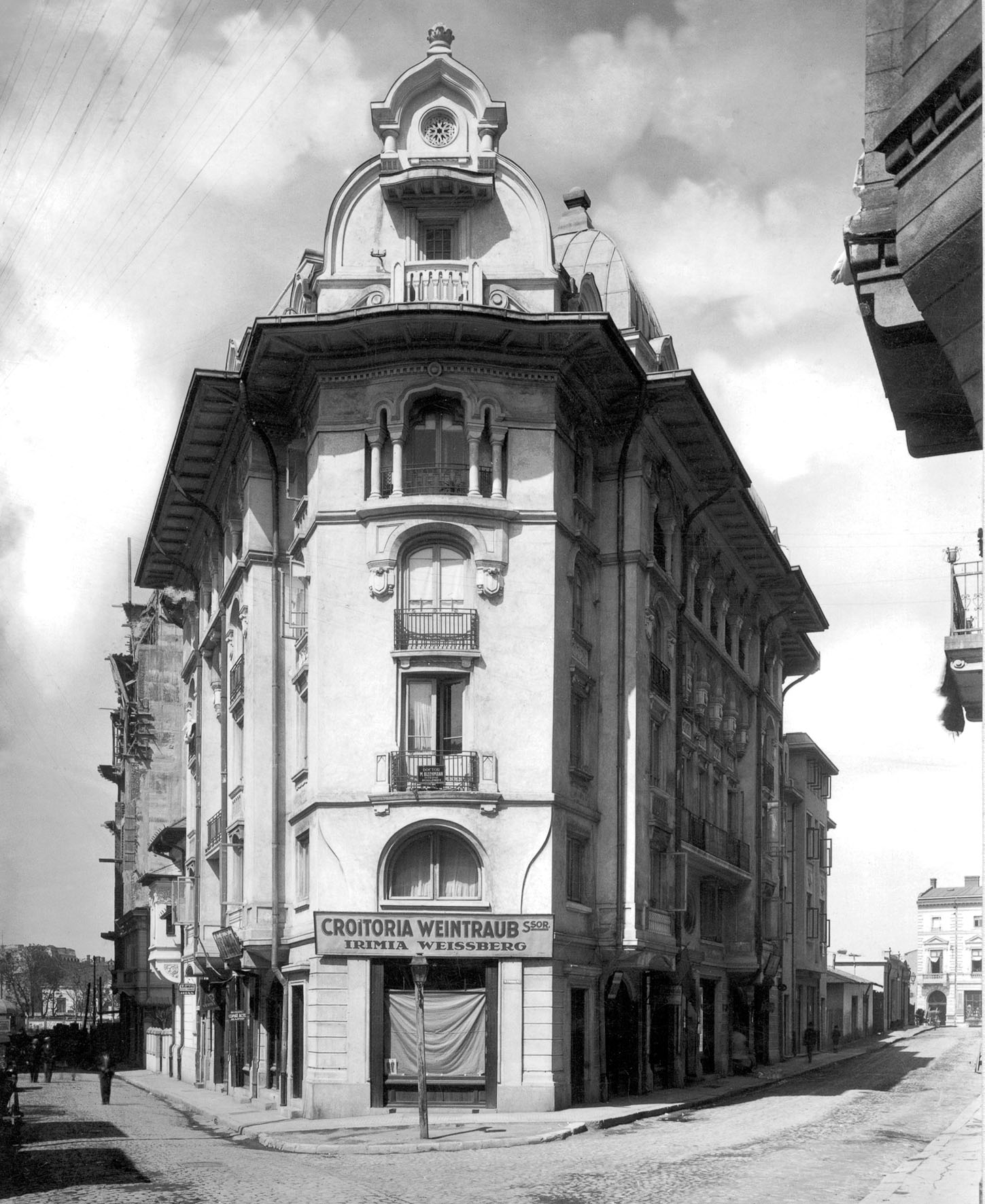 Corner of The Tilman brothers building in Bucharest, Romania. The building has been built by the architect Toma T. Socolescu, very likely between 1923 and 1925. It is located at the crossing of strada Filitti and strada Tonitza, close to the "Piata Natiunile Unite" (United Nation place), which was named at that time "Piata Senatului" (Senate Place) We are the only heirs and descendants of Toma T. Socolescu (died in 1960 in Bucharest) and therefore owner of all his intellectual rights.